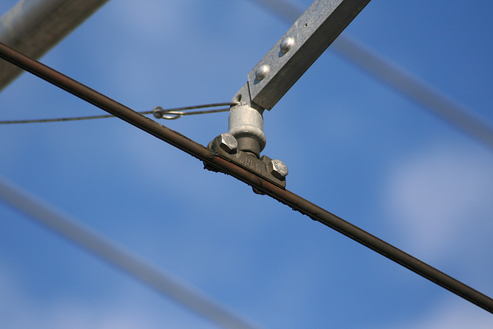 A mounted contact wire.